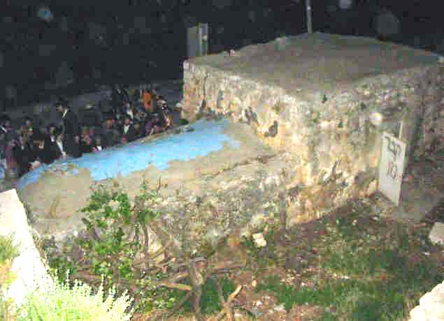 Mark of Nun's grave